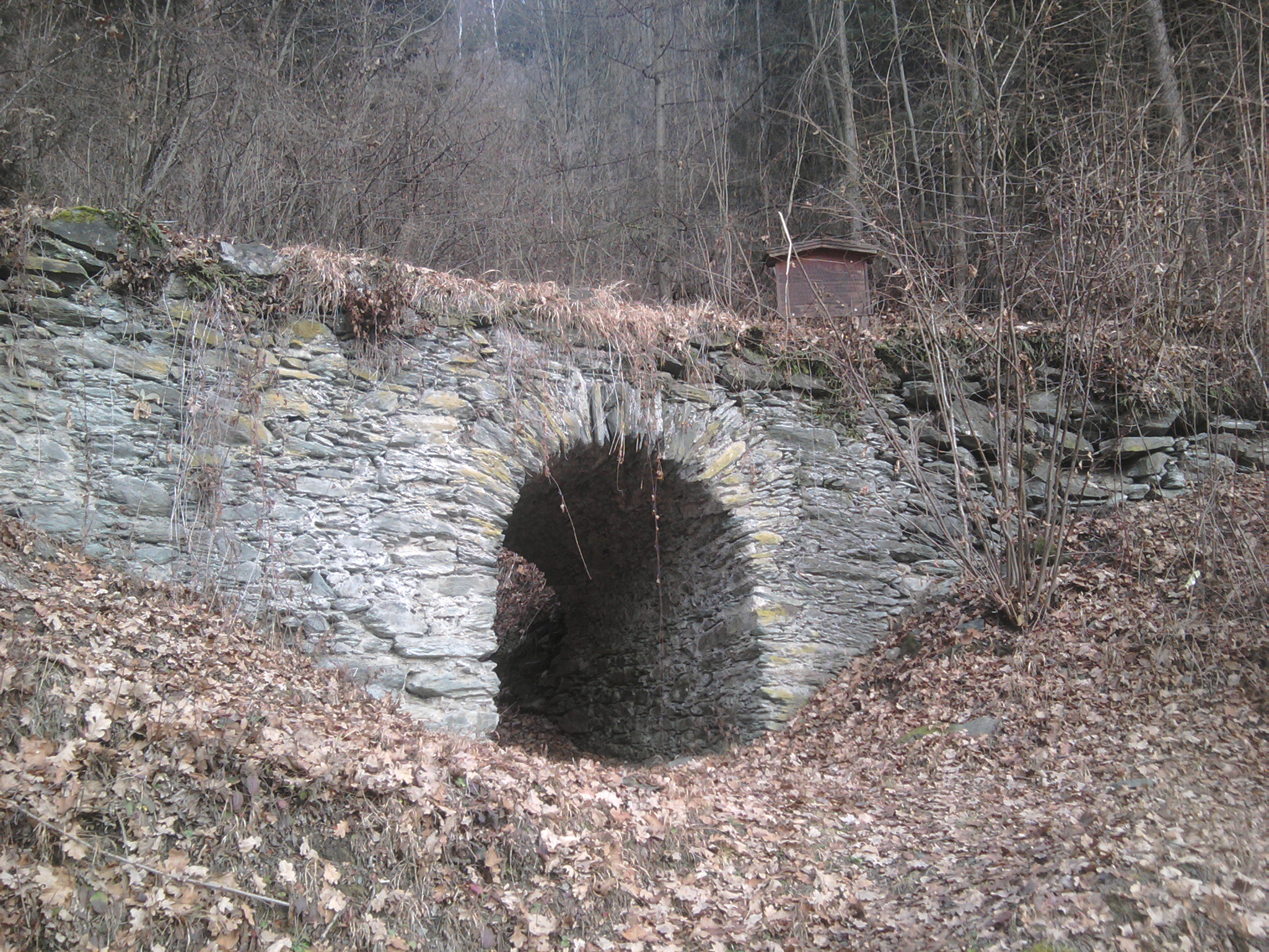 The Römerbrücke in Oberaich, Austria, frontal view. The picture is taken from south of bridge facing uphill.